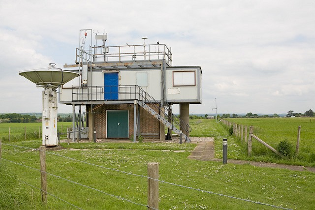 Equipment rooms at Chilbolton Observatory There are two portakabin-like structures, raised on circular concrete pillars, facing each other, exactly 500 metres apart. The other one can be seen on the horizon to the right of the one in the foreground. The use of them cannot be discerned from study of the otherwise interesting Chilbolton Observatory web site The main 25m steerable parabolic dish is off-picture right.